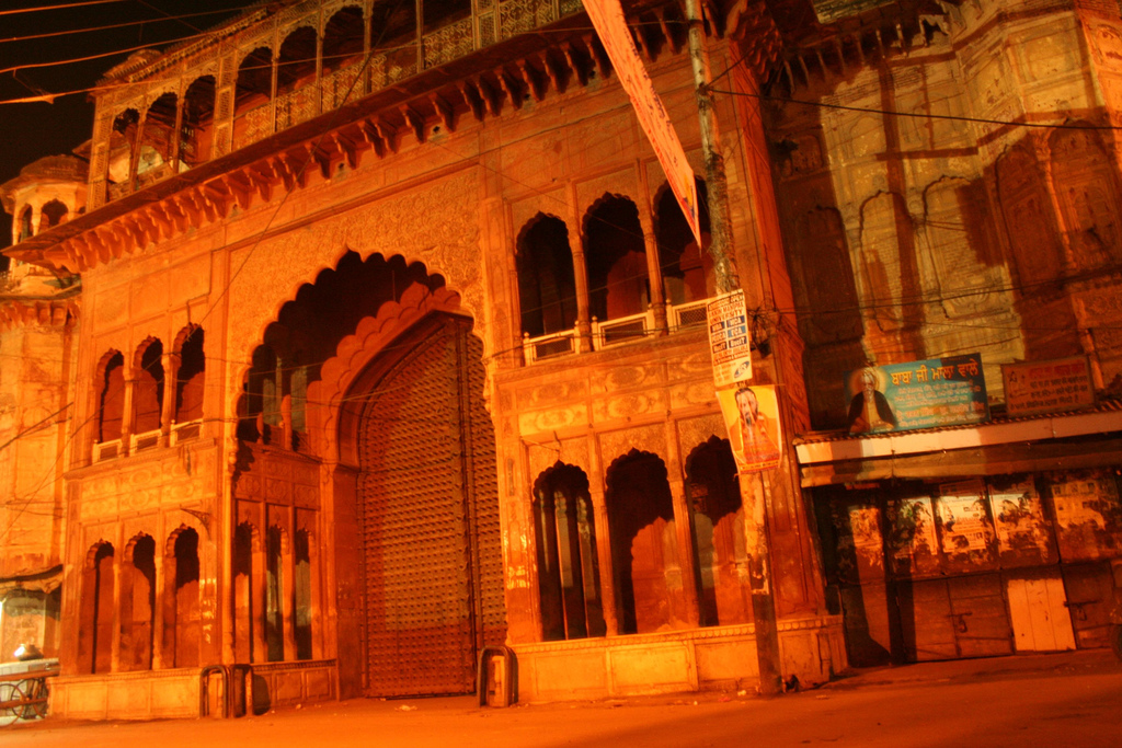 Shot by Rohit Markande in Patiala.